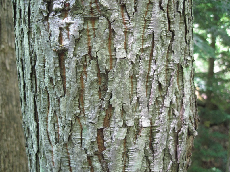 The bark of a Pignut Hickory tree (Carya glabra) growing in Hollis, New Hampshire.